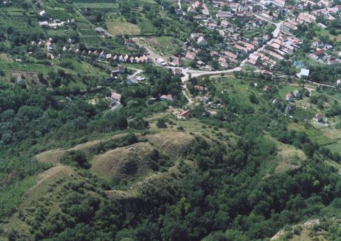 Nemszmély Hungary aerialphotography